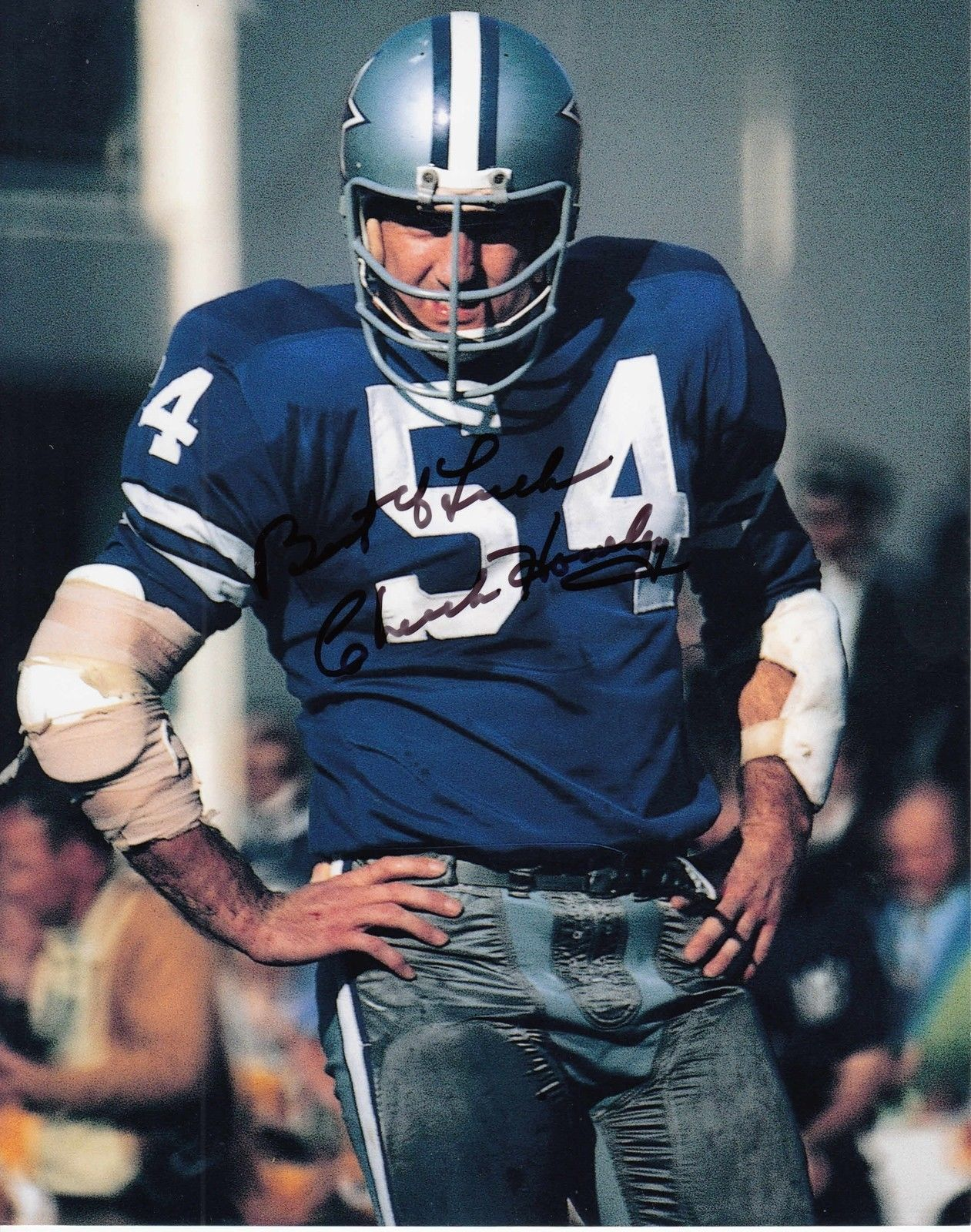 Chuck Howley playing for the Dallas Cowboys.